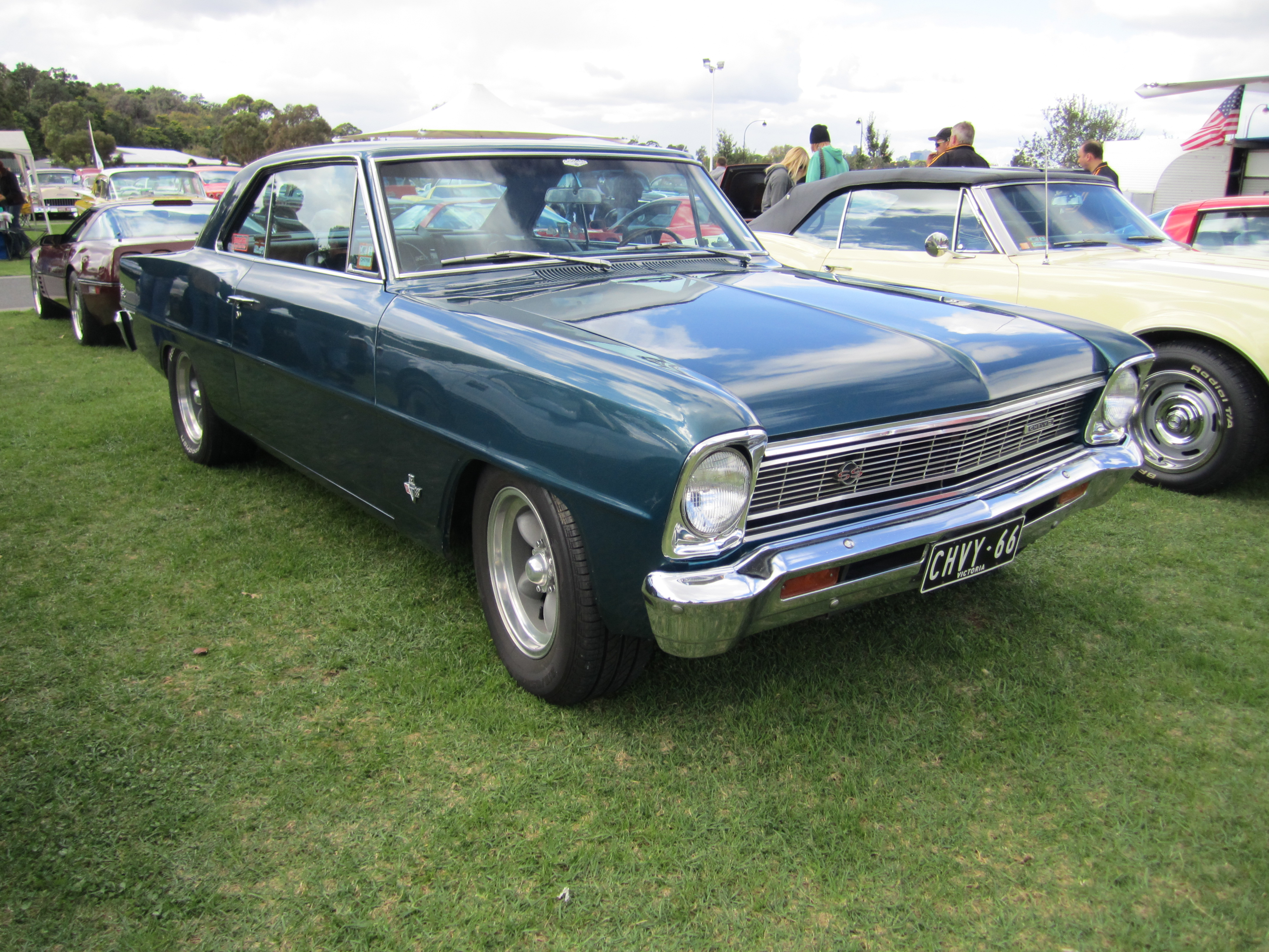 Built from 1962-79 Available in 2 & 4 door sedan, Hardtop & wagon. Engines; 153 4 cyl, 194, 230 6 cyl, 283 & 327 V8s. SS only available in Hardtop